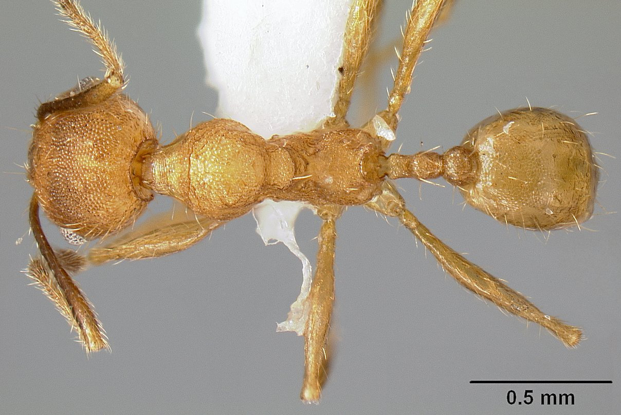 Dorsal view of ant Pheidole acamata specimen jtlc000016314.